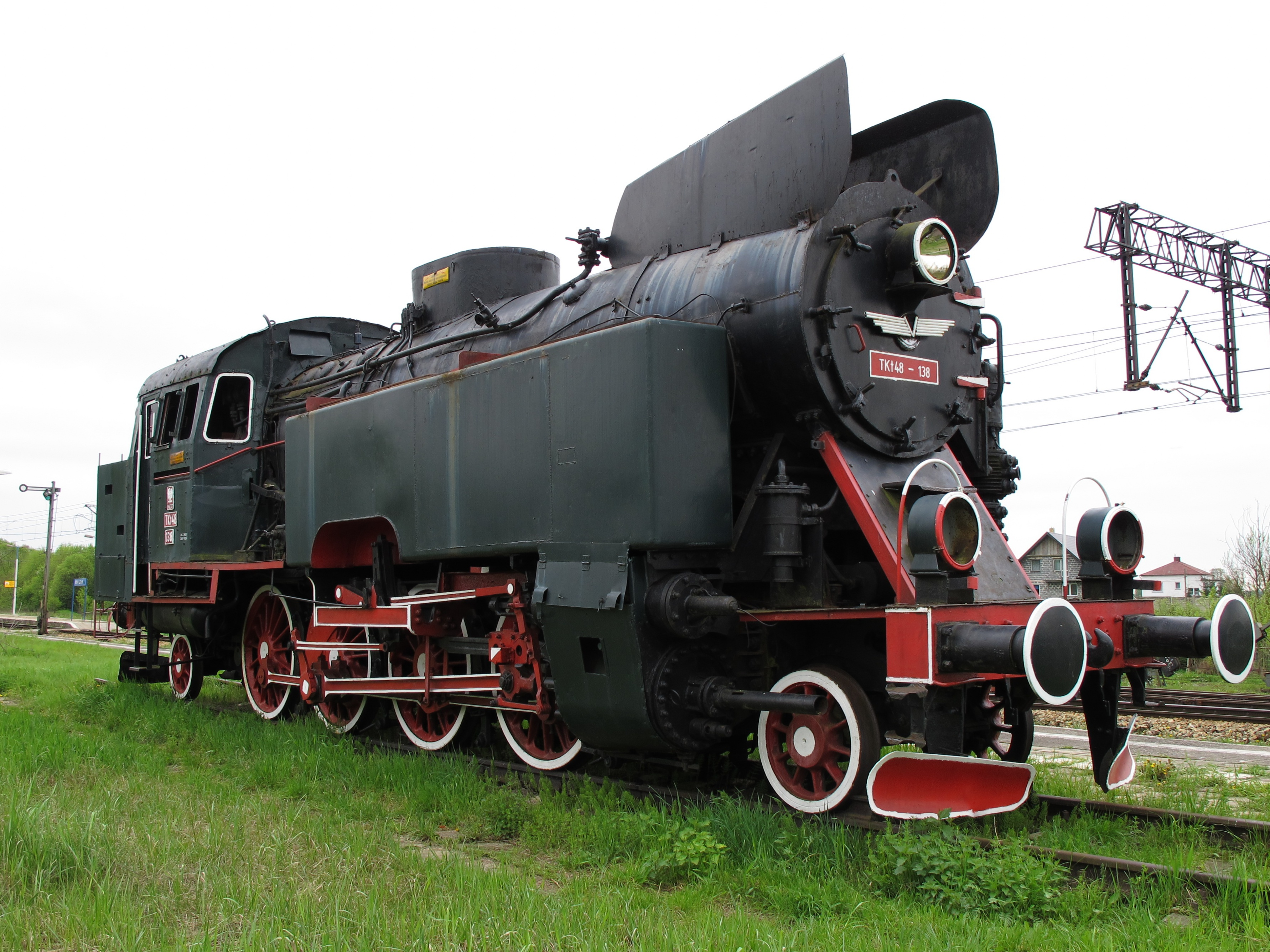 PKP class TKt48 number 138 at Knyszyn train station (near villages Ruda and Knyszyn Zamek, gm. Krypno, podlaskie, Poland)